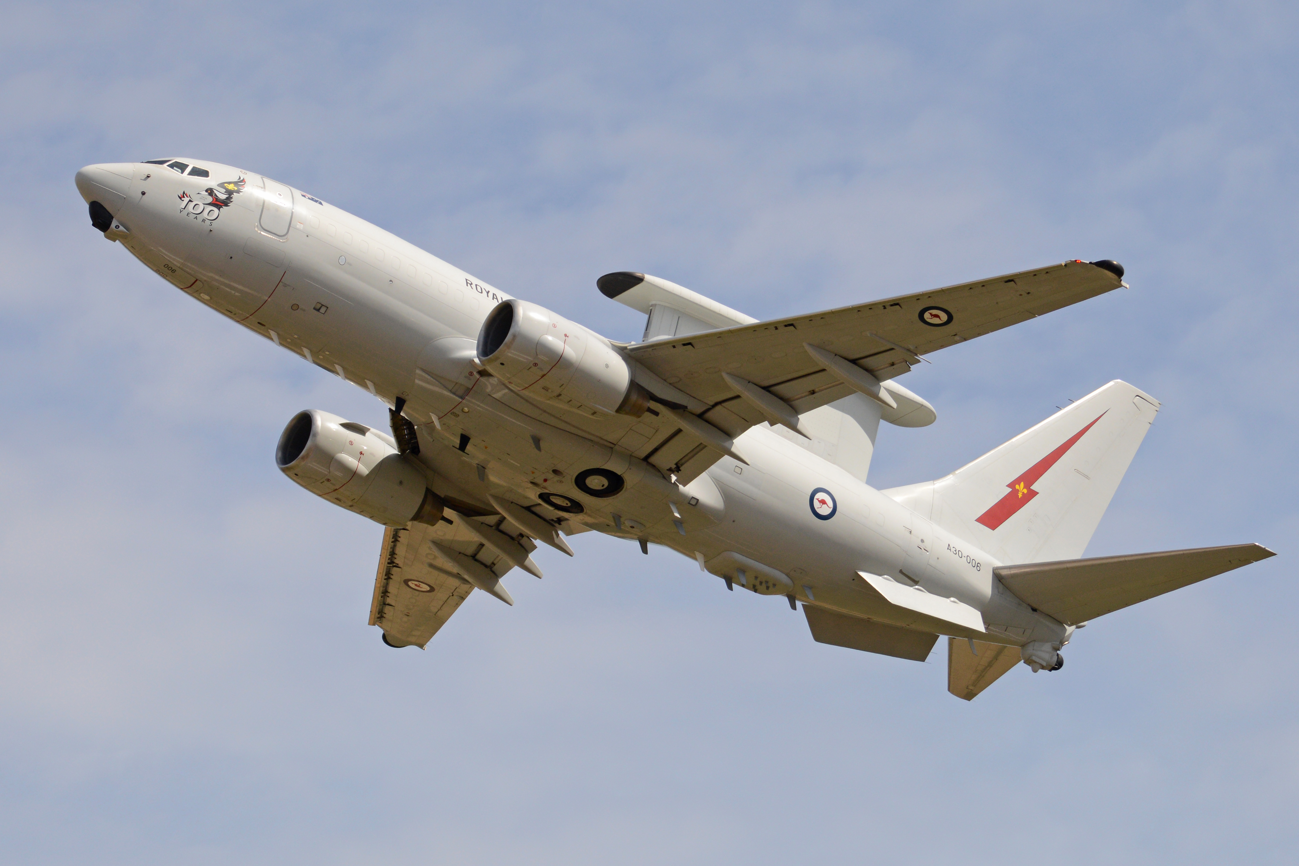 c/n 33987, l/n 1991. Built 2006. Operated by 2sqn Royal Australian Air Force, based at Williamtown, NSW. Seen departing after taking part in the 2017 Royal International Air Tattoo. RAF Fairford, Gloucestershire, UK. 17th July 2017